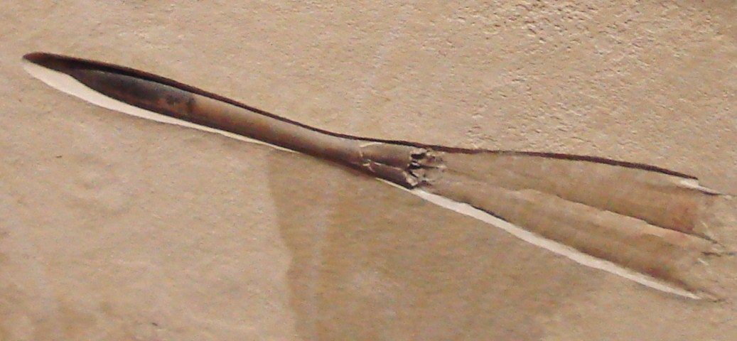 Fossil of Hibolites semisulcatus